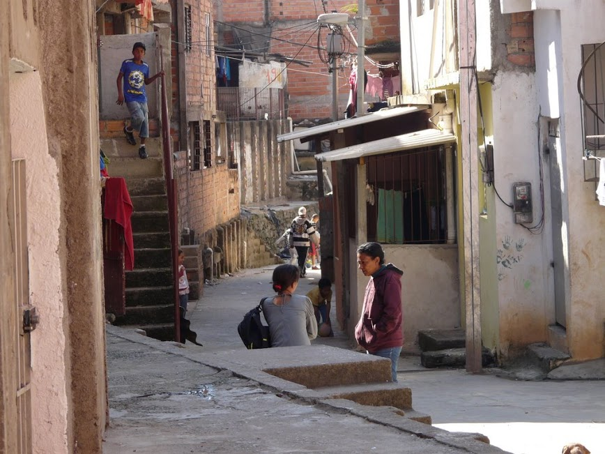 Der Gang durch die Favela monte Azul in Brasilien, Sao Paolo